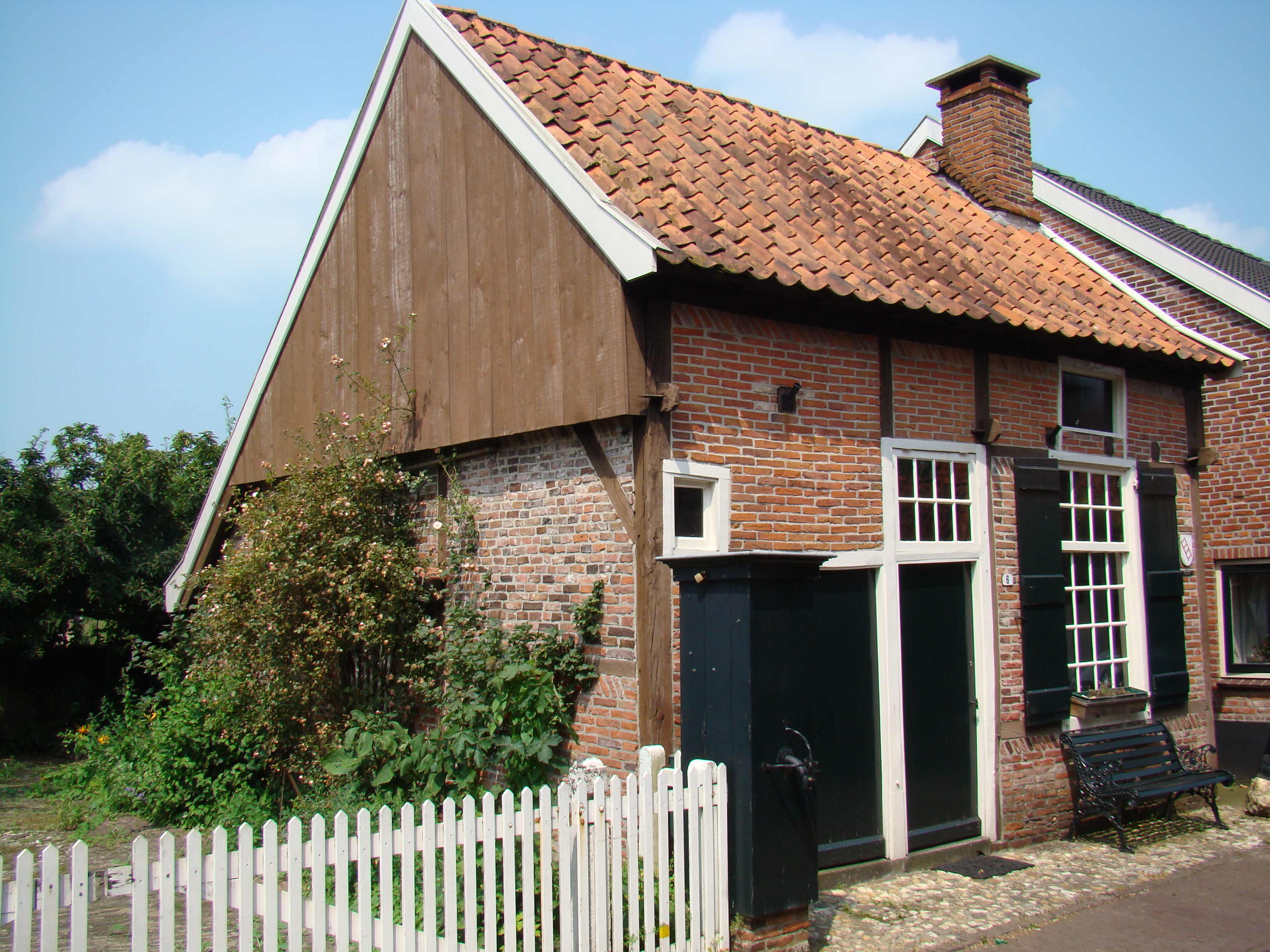 Monumental farmhouse at Bredevoort